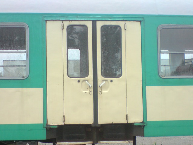 Exterior doors on a type 120A passenger carriage.